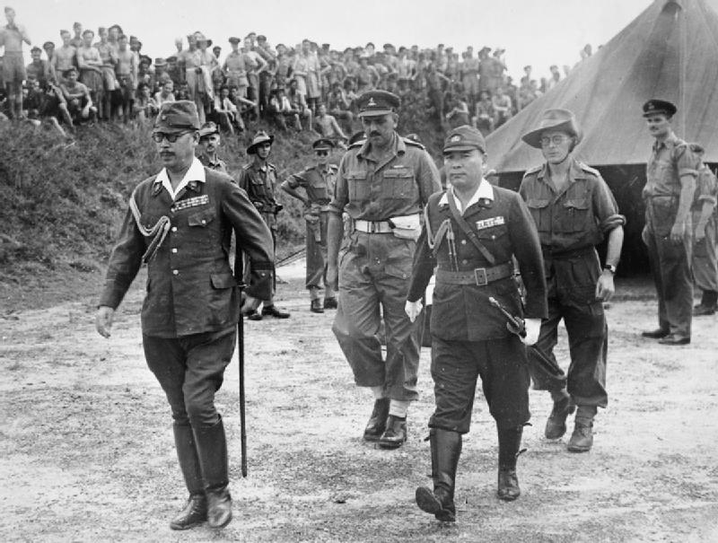 Japanese Peace Emissaries Arrive at Rangoon, Burma, 1945 Lieutenant General Takazo Numata (left) and Rear Admiral Kaigye Chudo walk from their plane at Mingladon airfield, Rangoon, to meet British commanders.